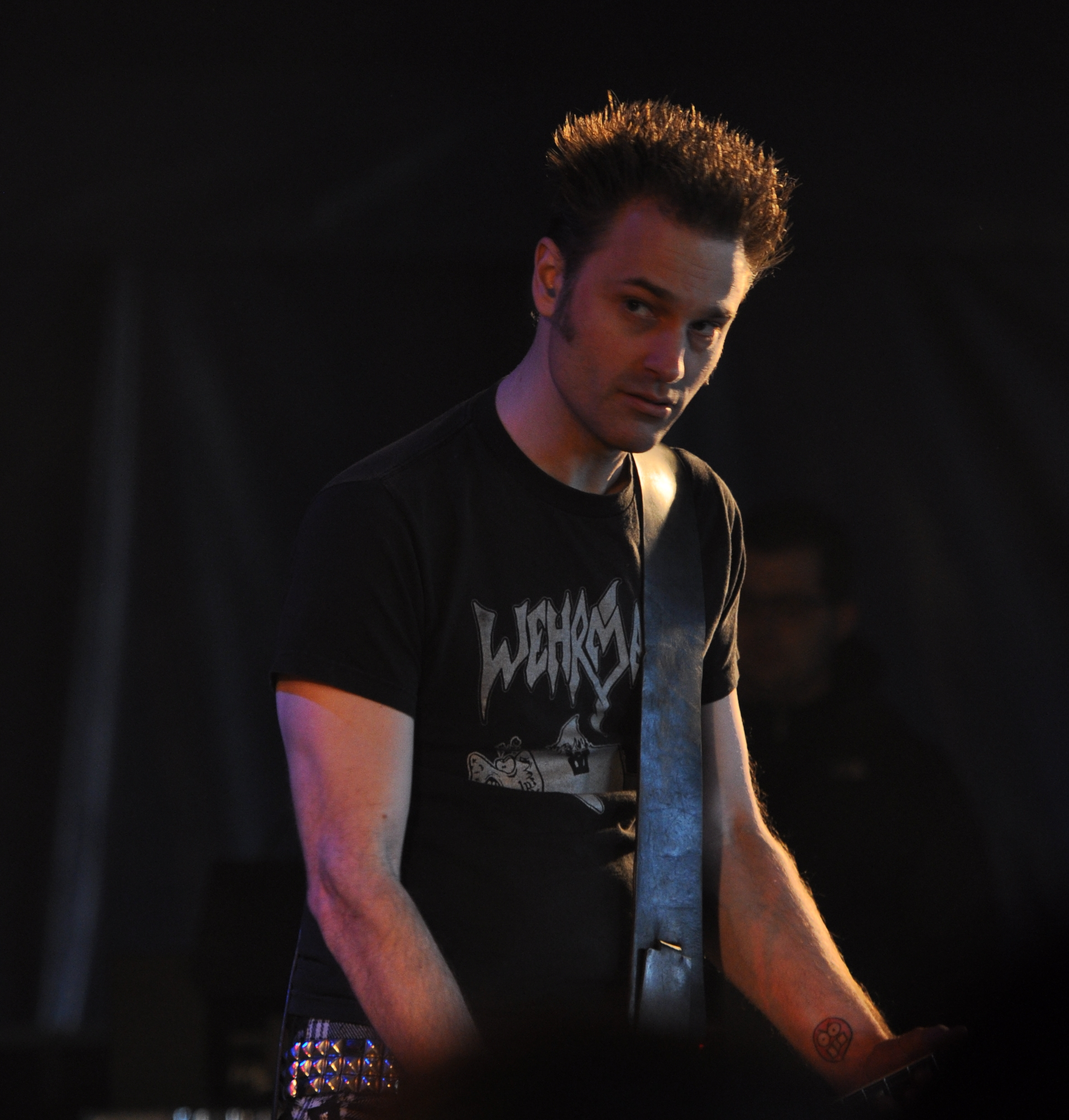 Karl Backman of the swedish punk band AC4 at Groezrock 2013